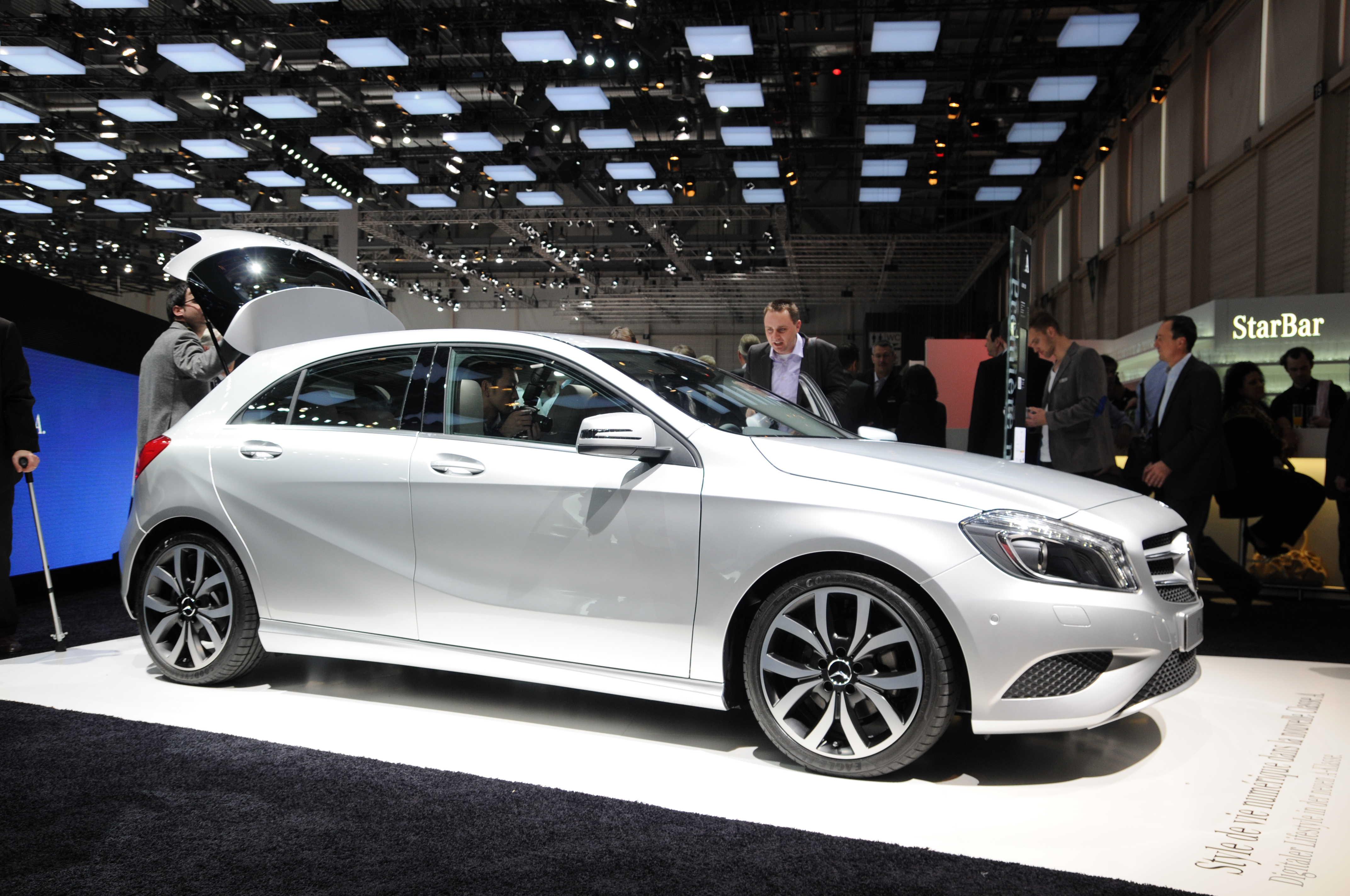 Geneva Motor Show 2012 (photos taken on the second press day)